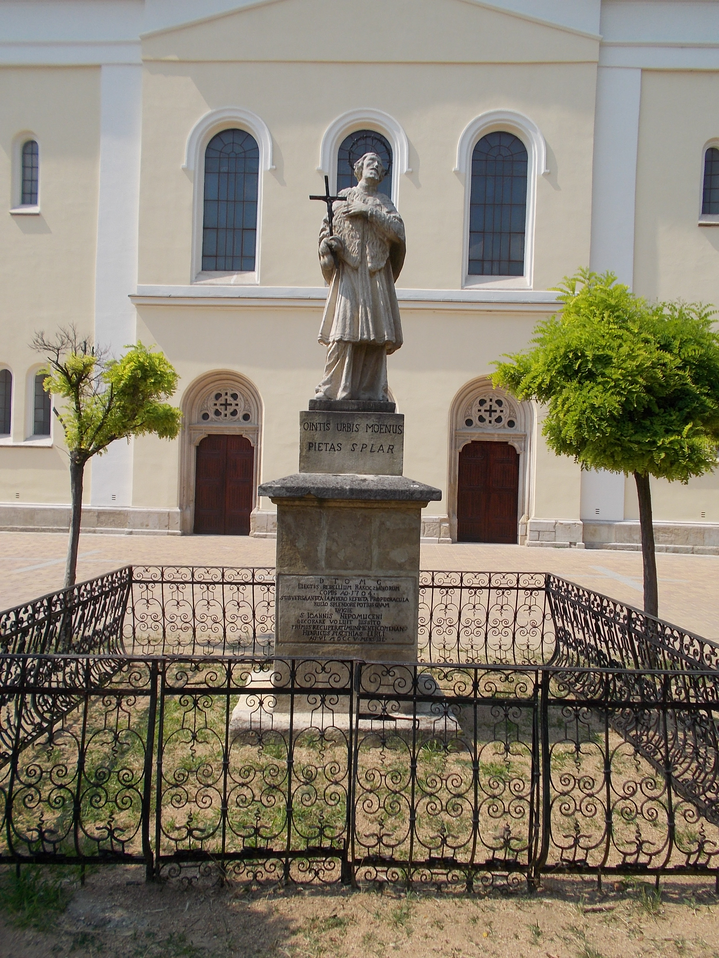 Saint John of Nepomuk Statue. GPS N 47° 12' 18.93", E 18° 24' 17.89" More:tourinform.hu This is a photo of a monument in Hungary, Identifier: 3869